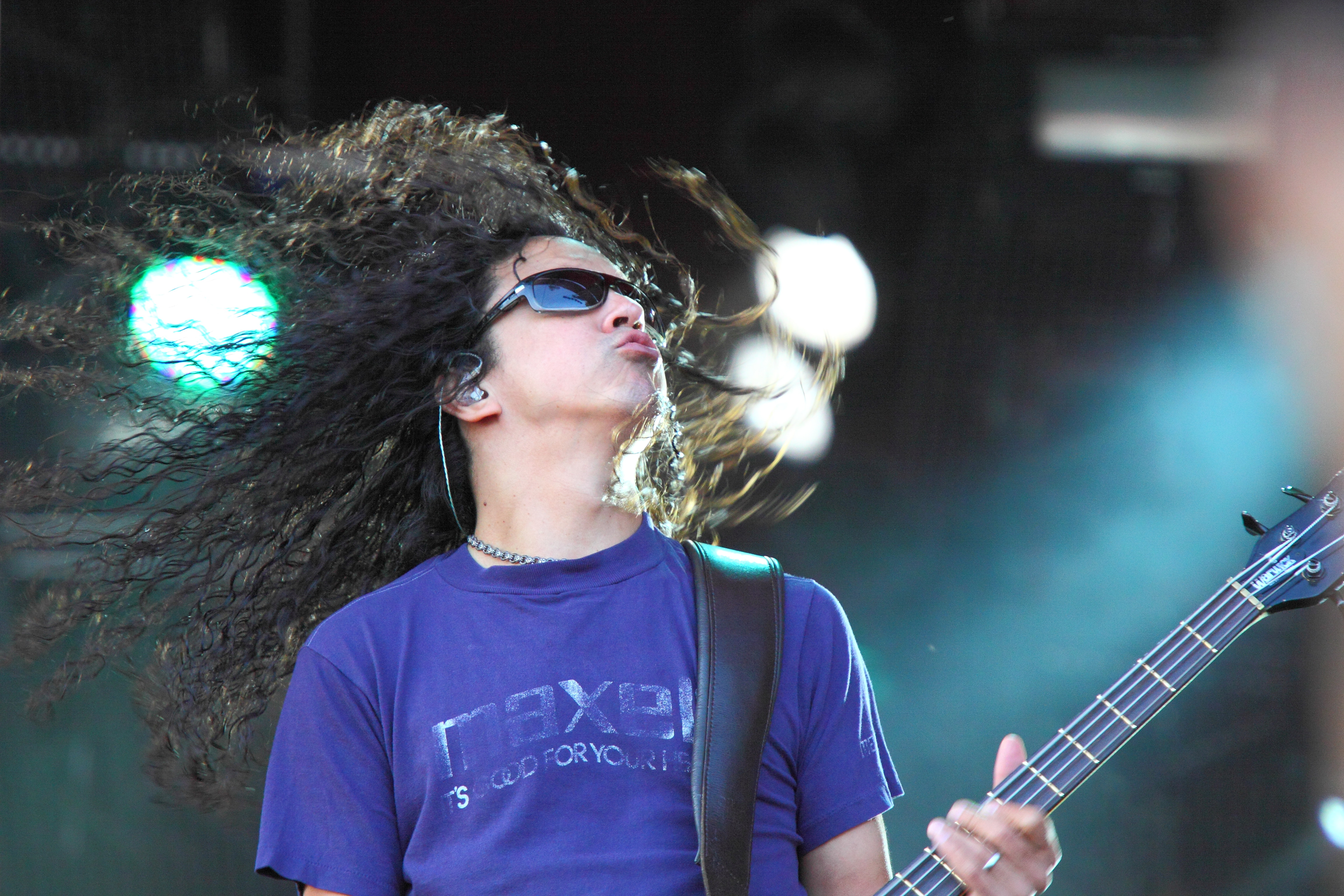 Mike Inez at Roskilde Festival 2010